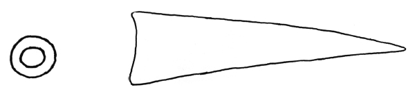 Drawing of love dart of Helminthoglypta nickliniana. Cross-section (on the left) and lateral view (on the right)